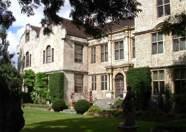 Treasurer's House, York